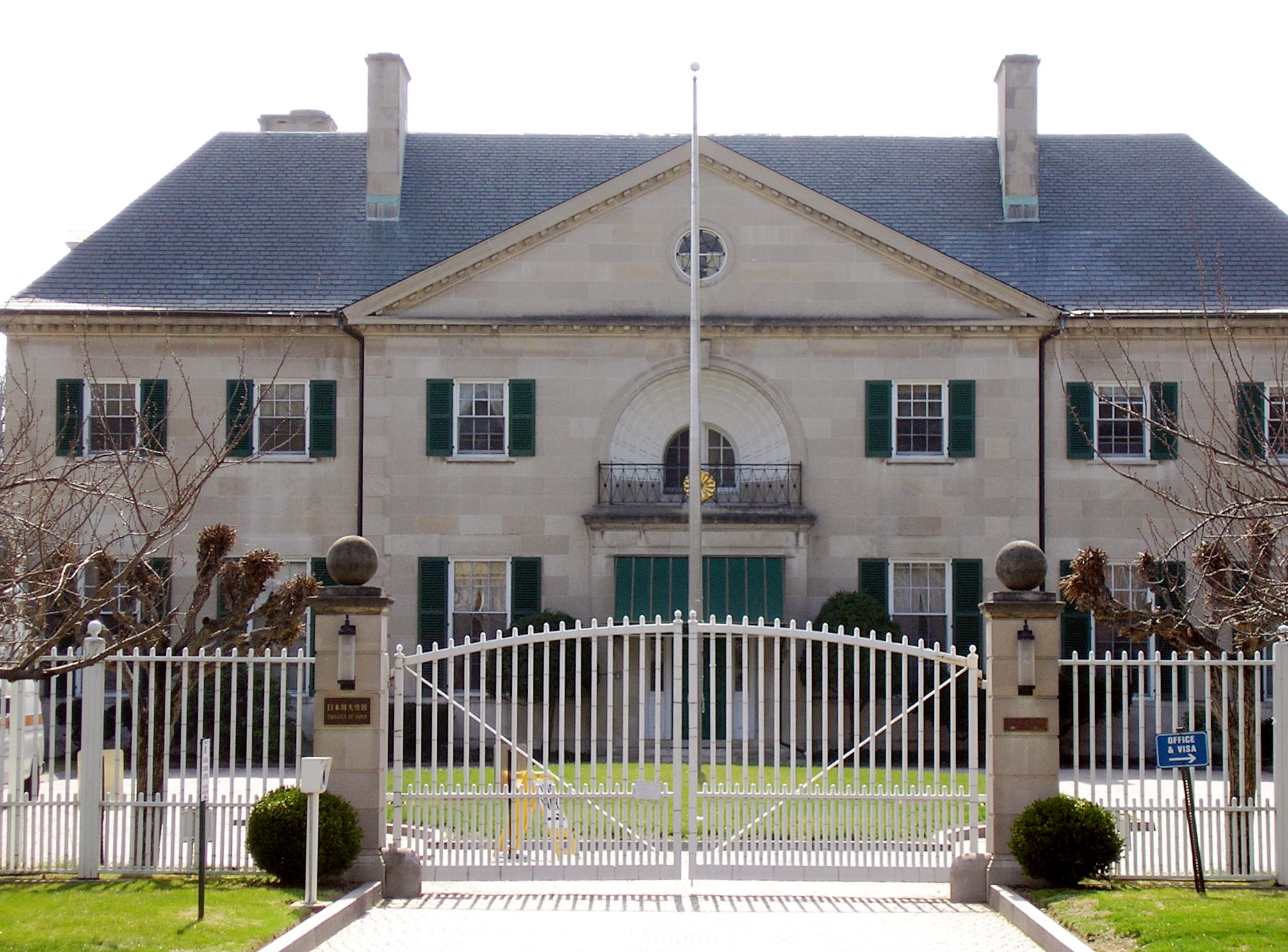 Part of the Embassy of Japan in Washington DC.